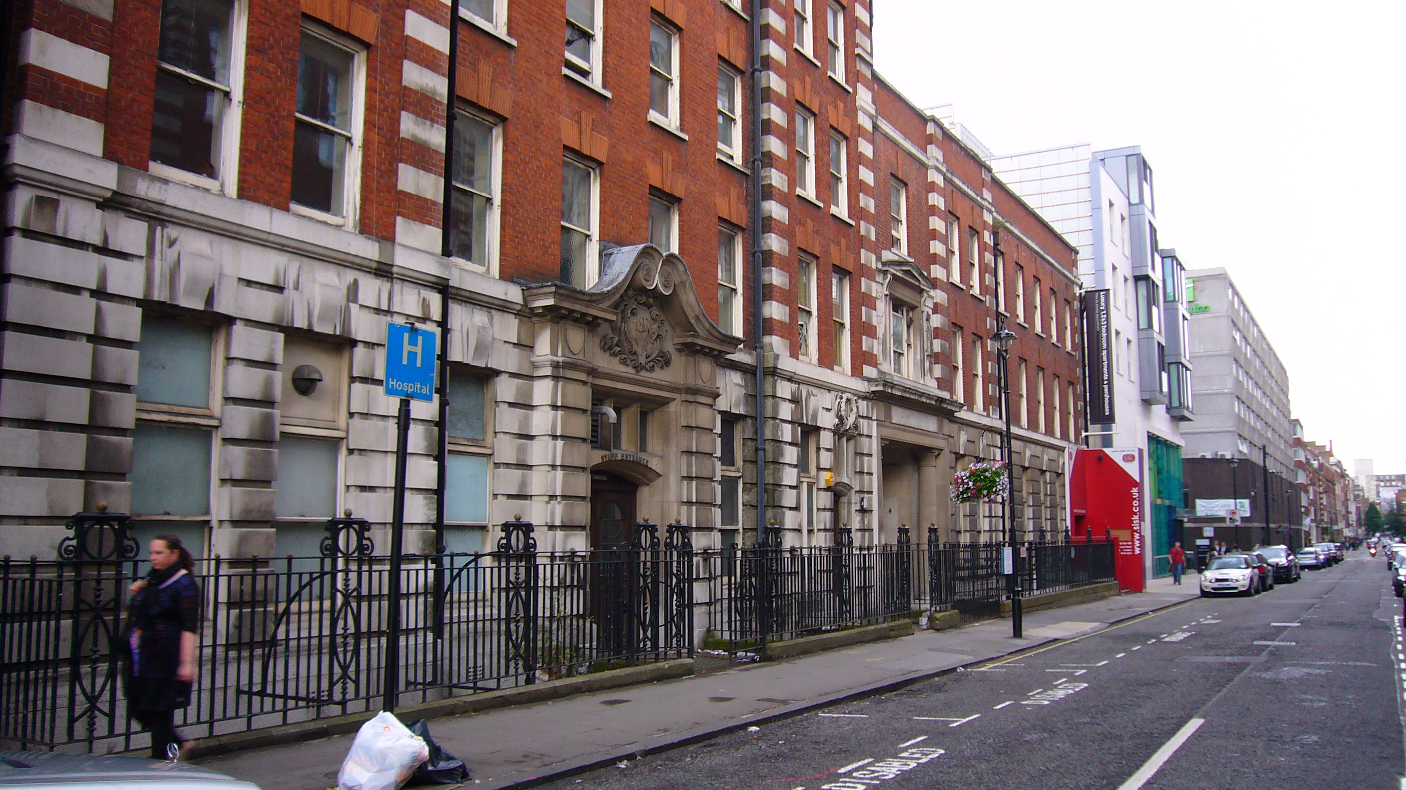 Royal National Othopedic Hospital (1908) old structure - demolished 2010